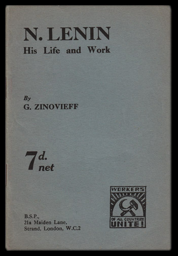 Cover of Lenin by Grigorii Zinoviev Published by the BSP, first half of 1920. Original document in Tim Davenport collection, scanned by me for Wikipedia. Public domain, published before 1923.